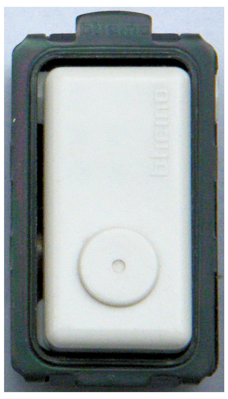 Italian button switch